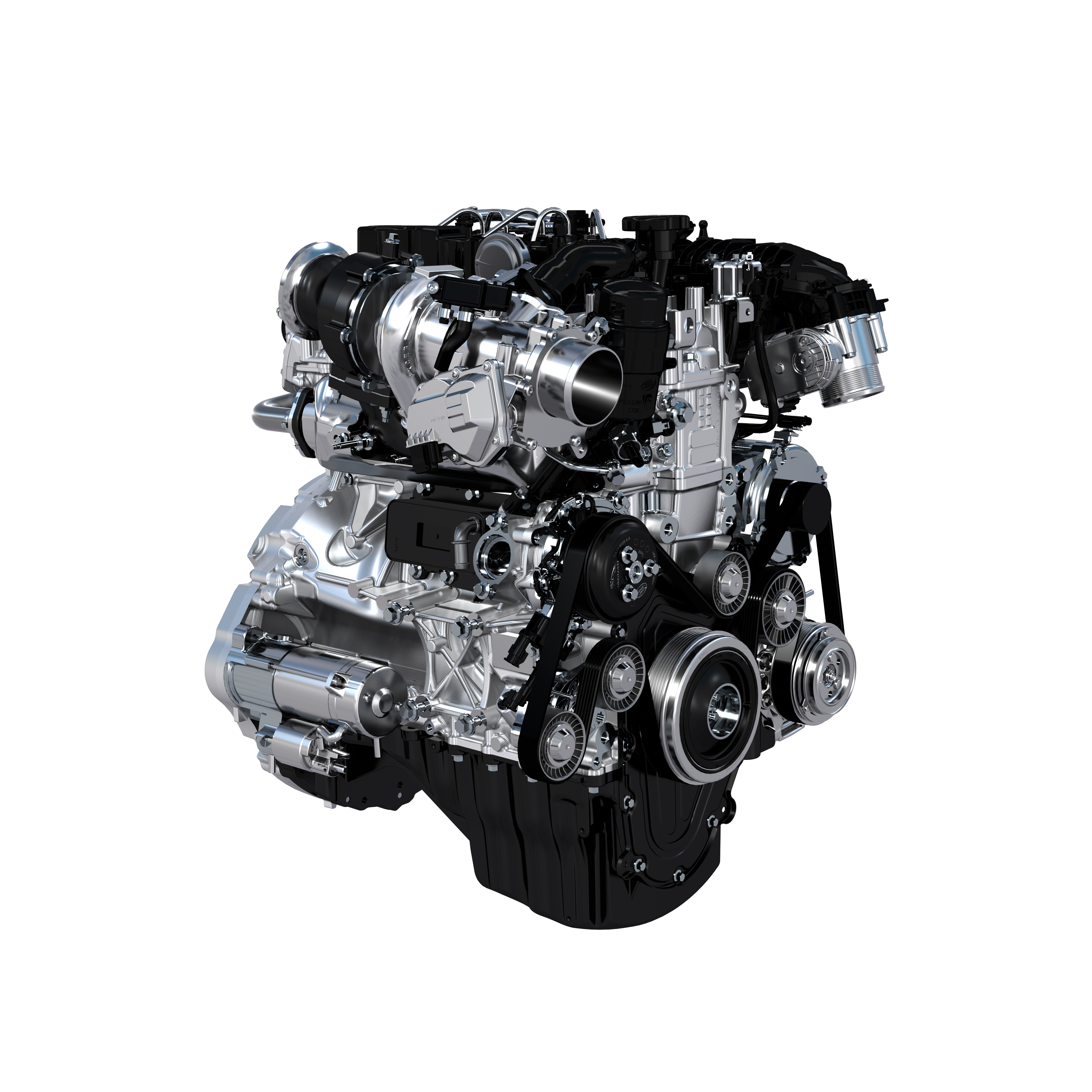 Jaguar XE Confirmed as New Name for Premium Sports Sedan with State-of-the-Art ‘Ingenium’ Engine Family and Advanced Aluminium Construction Technology